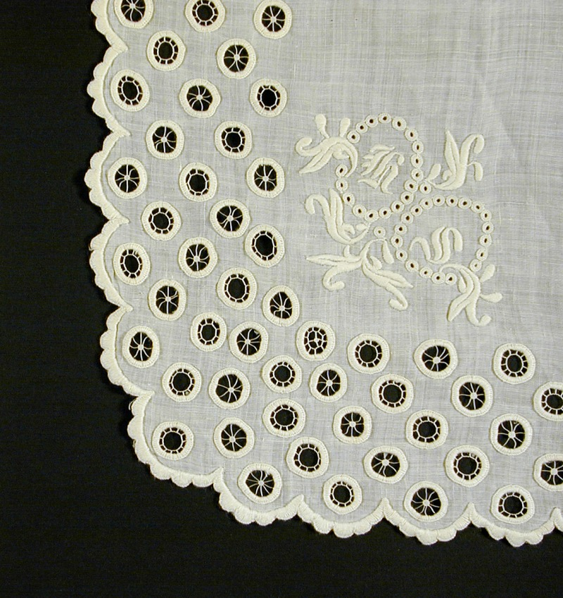 Germany or Switzerland, 19th century Costumes; Accessories Gift of Miss Beatrice Wood (60.41.105) Costume and Textiles